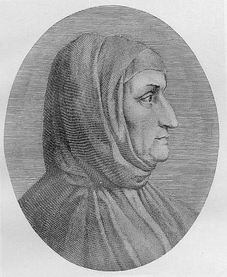 Portrait of Petrarch.